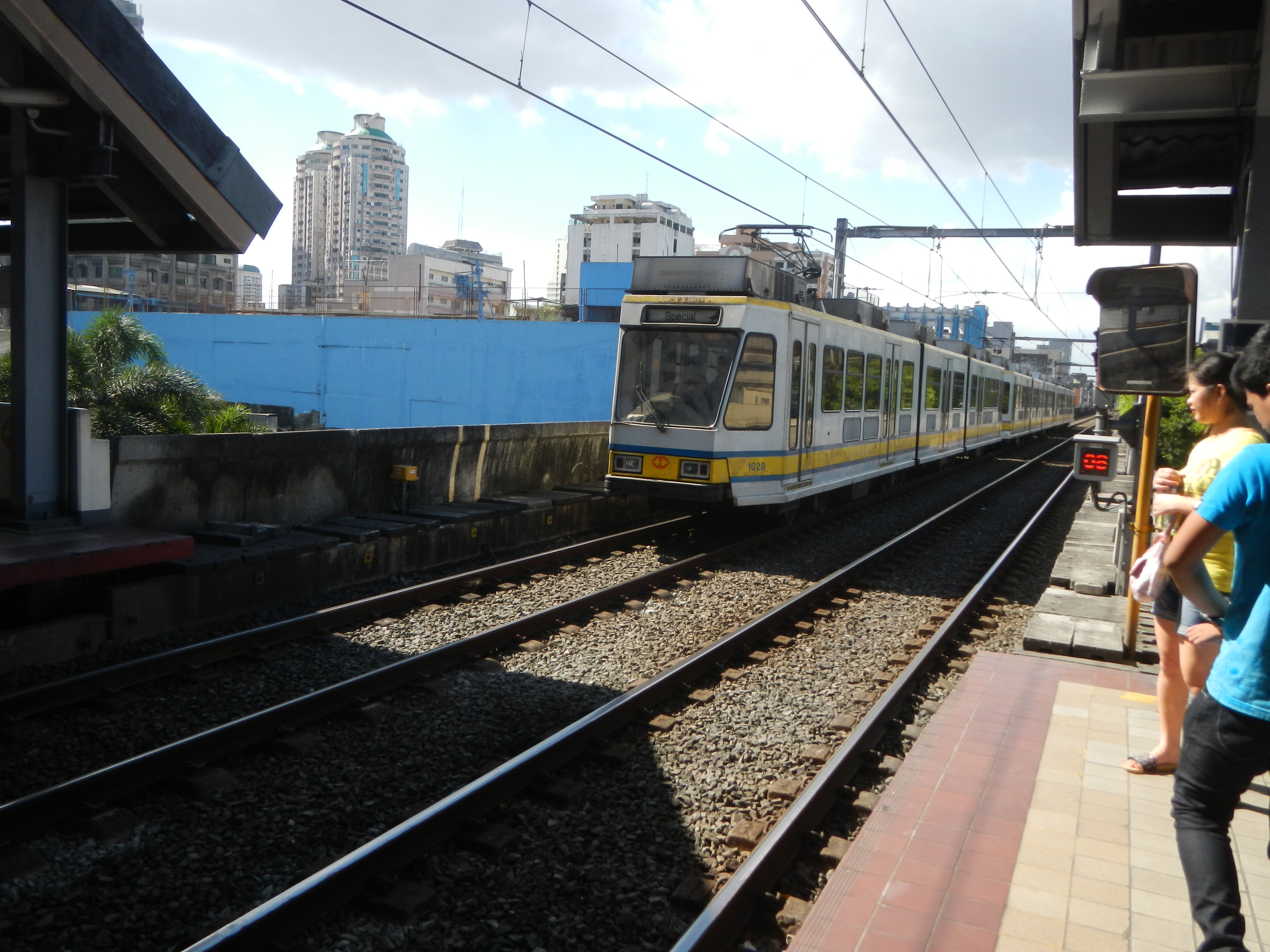 City of Manila, Santa Cruz, Manila in Rizal Avenue corner Recto Avenue, Santa Cruz, Manila to Doroteo Jose station along List of roads in Metro Manila Doroteo Jose Street corner Oroquieta Street along Pedestrian overpass bridge (Doroteo Jose station-Recto station) to Recto station.